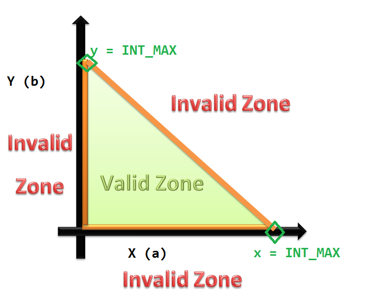 Equivalent Class Partitioning of safe addition of integers